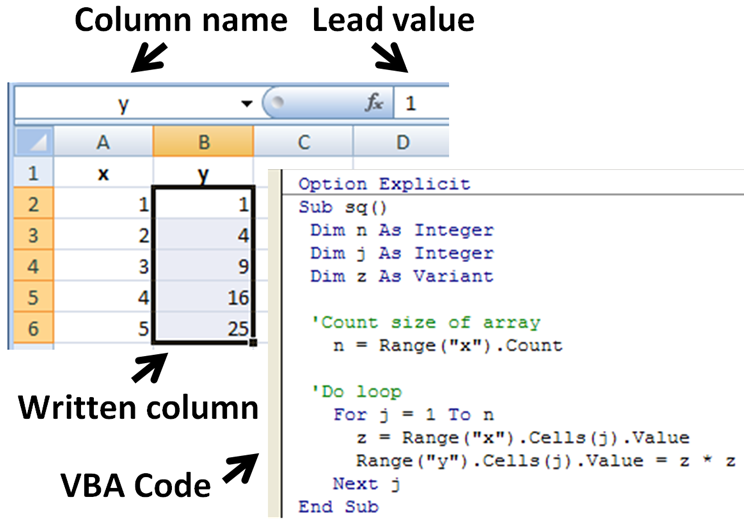 Illustration of subroutine in Microsoft Excel that reads the x-column, squares it, and writes the squares into the y-column. All proprietary Microsoft art work has been cropped to leave a generic spreadsheet